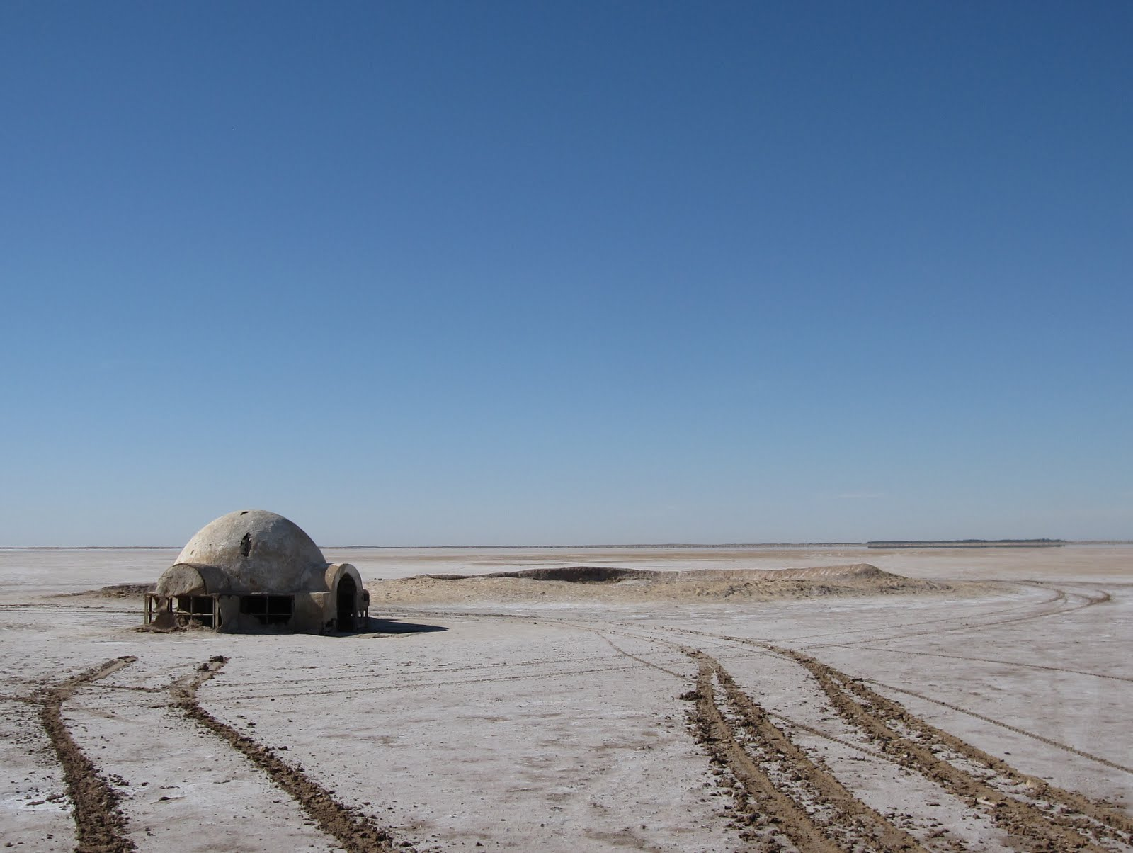 Chott el-Jerid, remains of the set at one of the filming locations used for the Lars Homestead in Star Wars